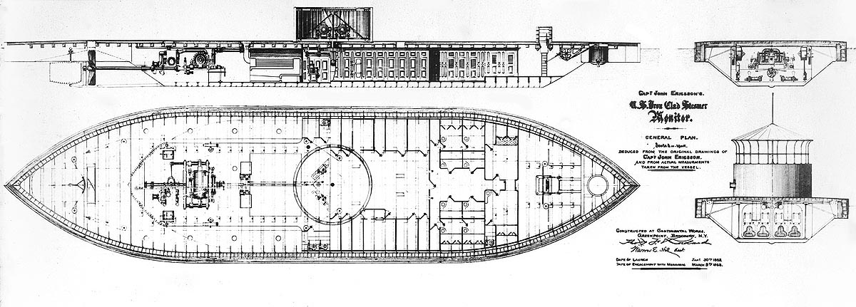 Photo # NH 50954 - Inboard plans of USS Monitor, published 1862. General plan published in 1862, showing the ship's inboard profile, plan view below the upper deck and hull cross sections through the engine and boiler spaces.